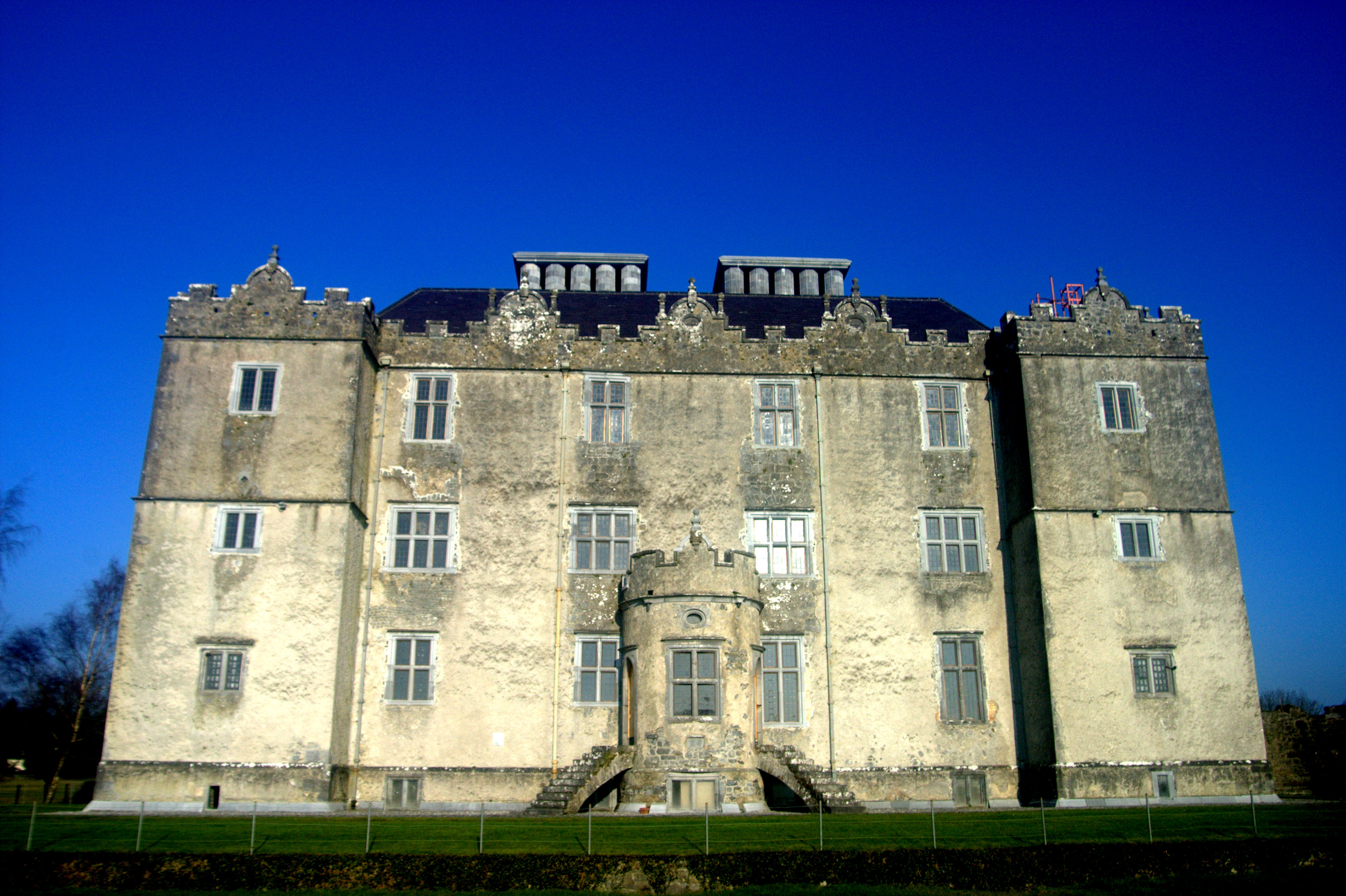 Co. Galway Ireland, Feb. 2007. Danny Burke